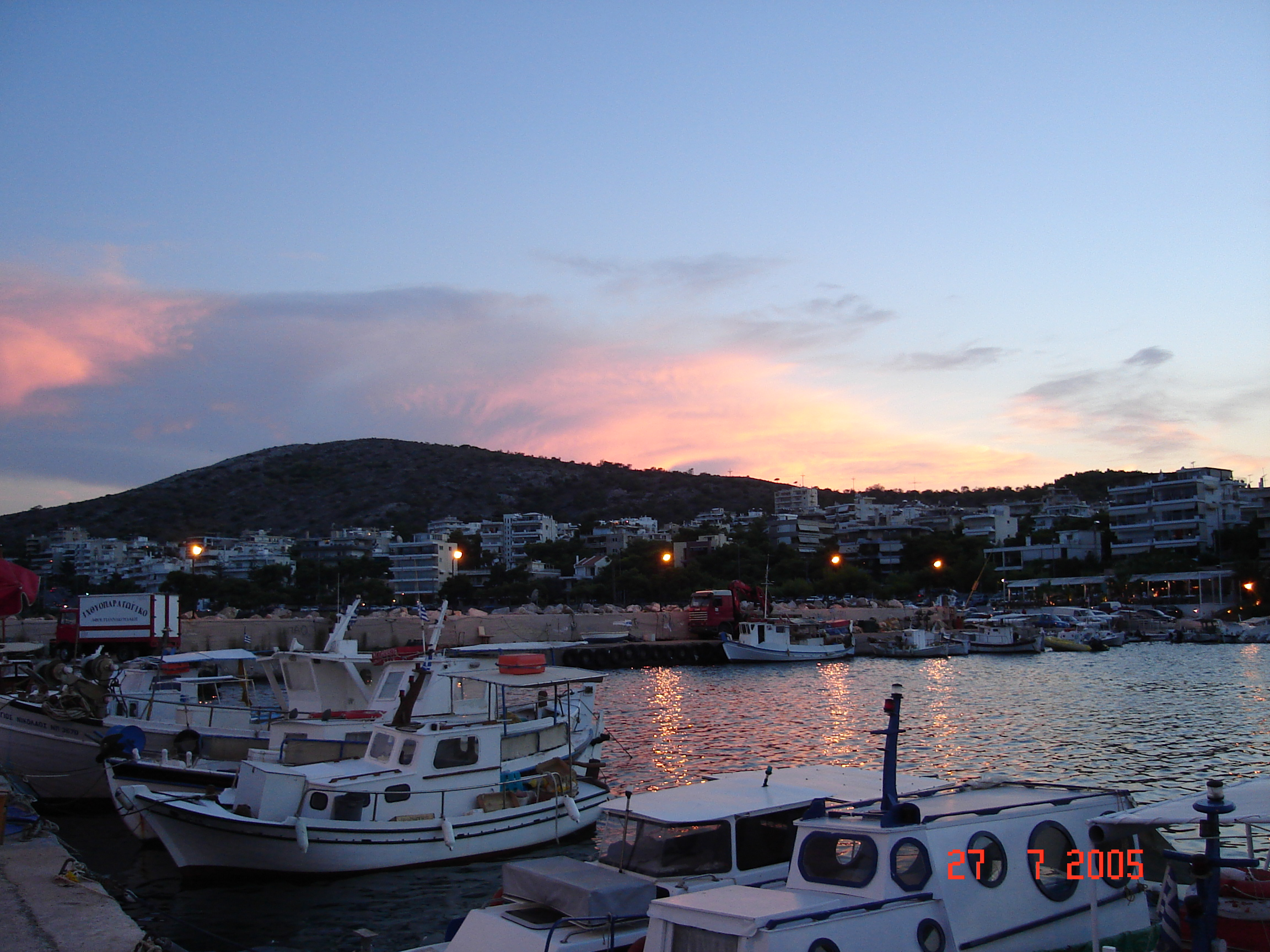 View on Varkiza as seen from the port